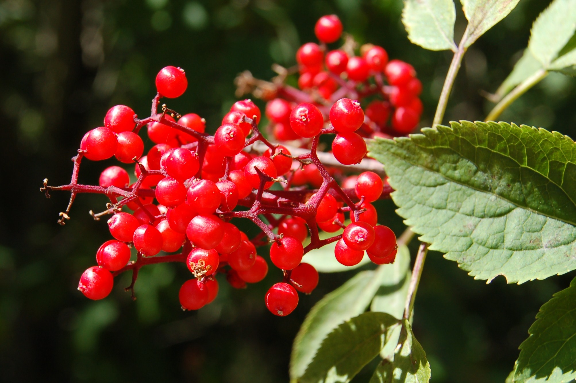 Elder